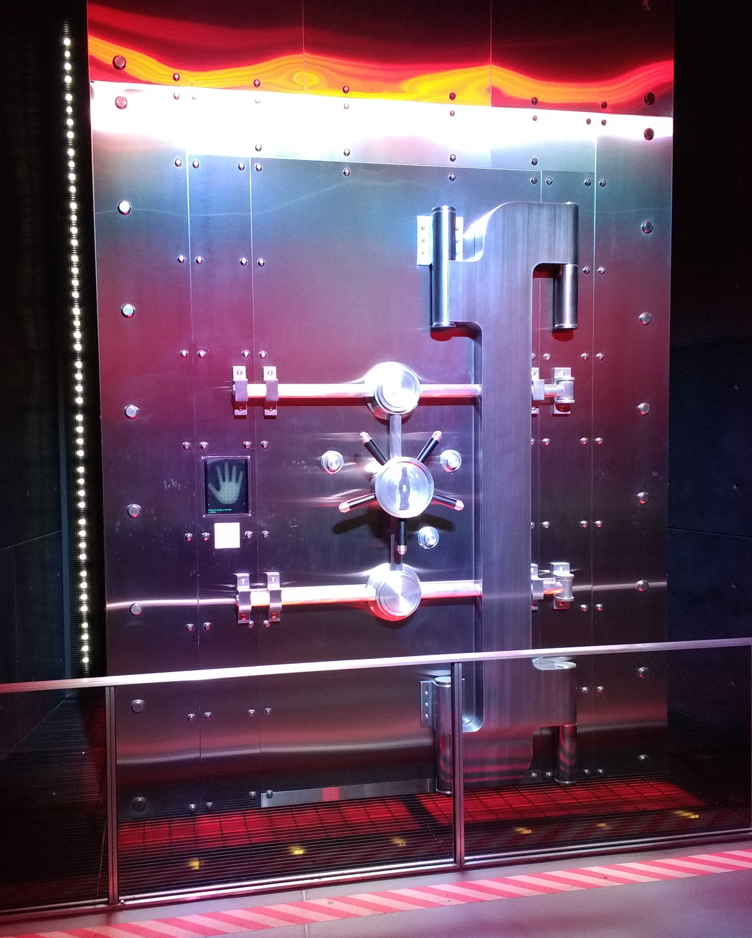 Vault of the Secret Formula at the World of Coca-Cola in Atlanta. Visitors are allowed to see and photograph, but not touch, this vault, which contains the Coca-Cola formula.